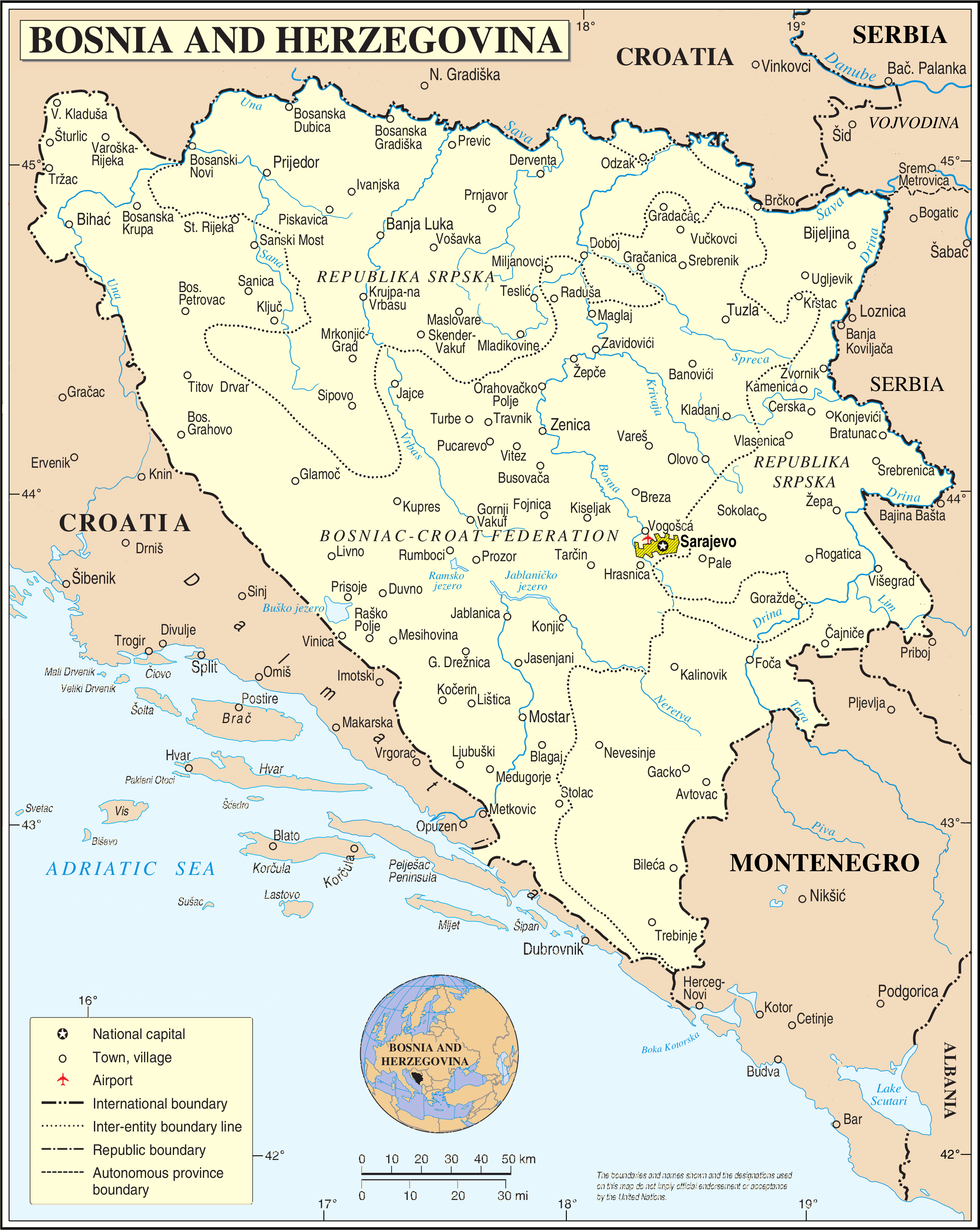 Bosnia and Herzegovina without streets and railways. Names of towns as before 1993